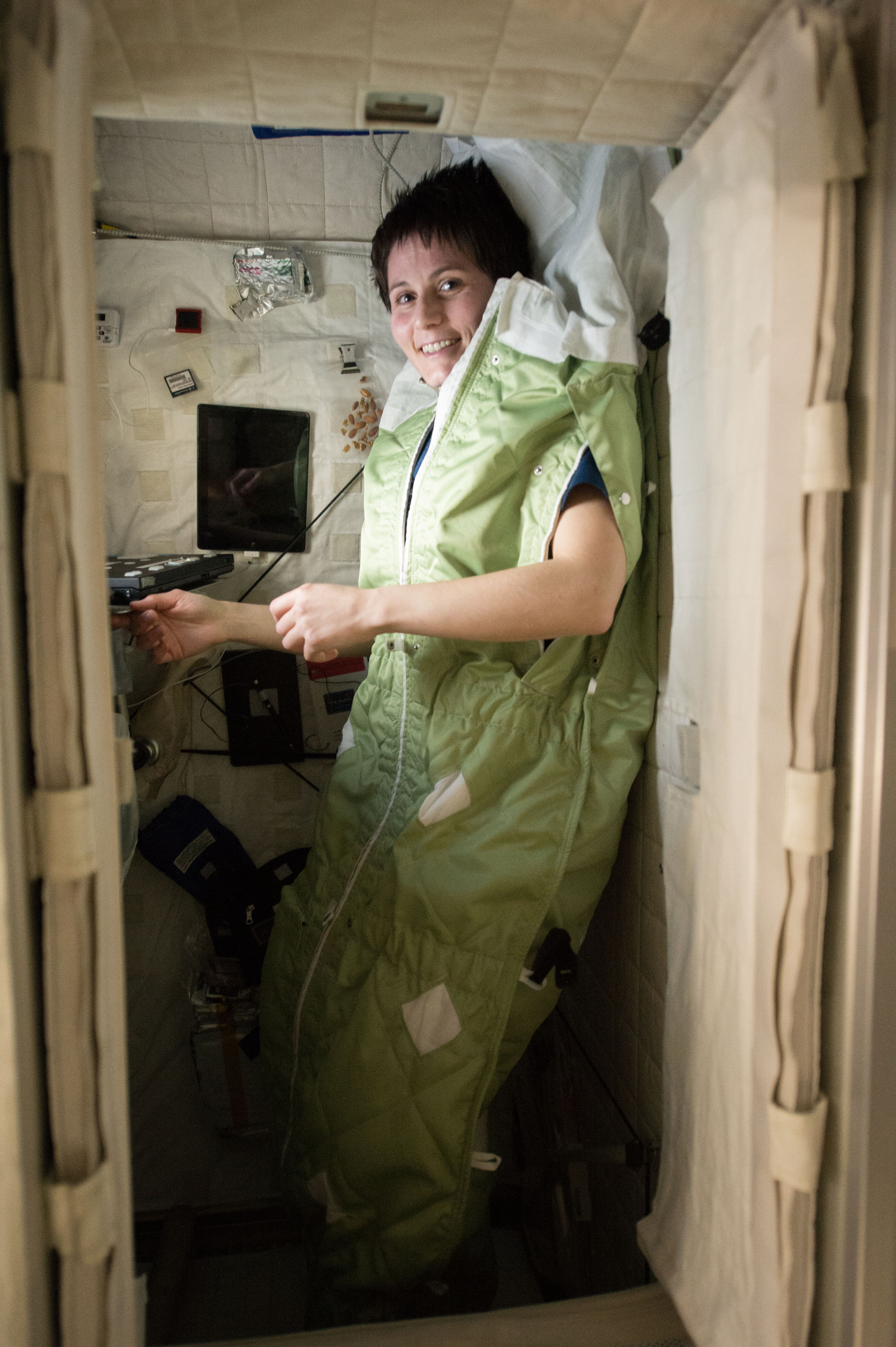 Expedition 42 Flight Engineer Samantha Cristoforetti of the European Space Agency (ESA) on 6 December 2014 is seen inside of a sleeping bag in her personal crew quarters on the International Space Station. Astronauts will strap the bag to the wall to prevent from free floating and potentially bumping into equipment while sleeping.